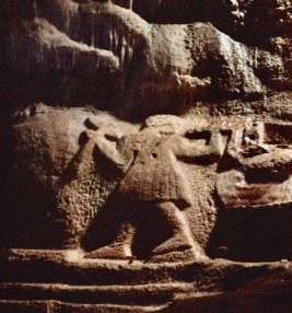 Detail of the self-depiction of sculptor Archedemos or "Nympholeptos", in the "Nympholeptos cave", Bari, Attica, Greece. Made from the file